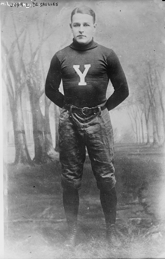 Bain News Service,, publisher. John L. DeSaulles [between ca. 1910 and ca. 1915] 1 negative : glass ; 5 x 7 in. or smaller. Notes: Title from unverified data provided by the Bain News Service on the negatives or caption cards. Forms part of: George Grantham Bain Collection (Library of Congress). Format: Glass negatives. Repository: Library of Congress, Prints and Photographs Division, Washington, D.C. 20540 USA, General information about the Bain Collection is available at Persistent URL: Call Number: LC-B2- 2896-15